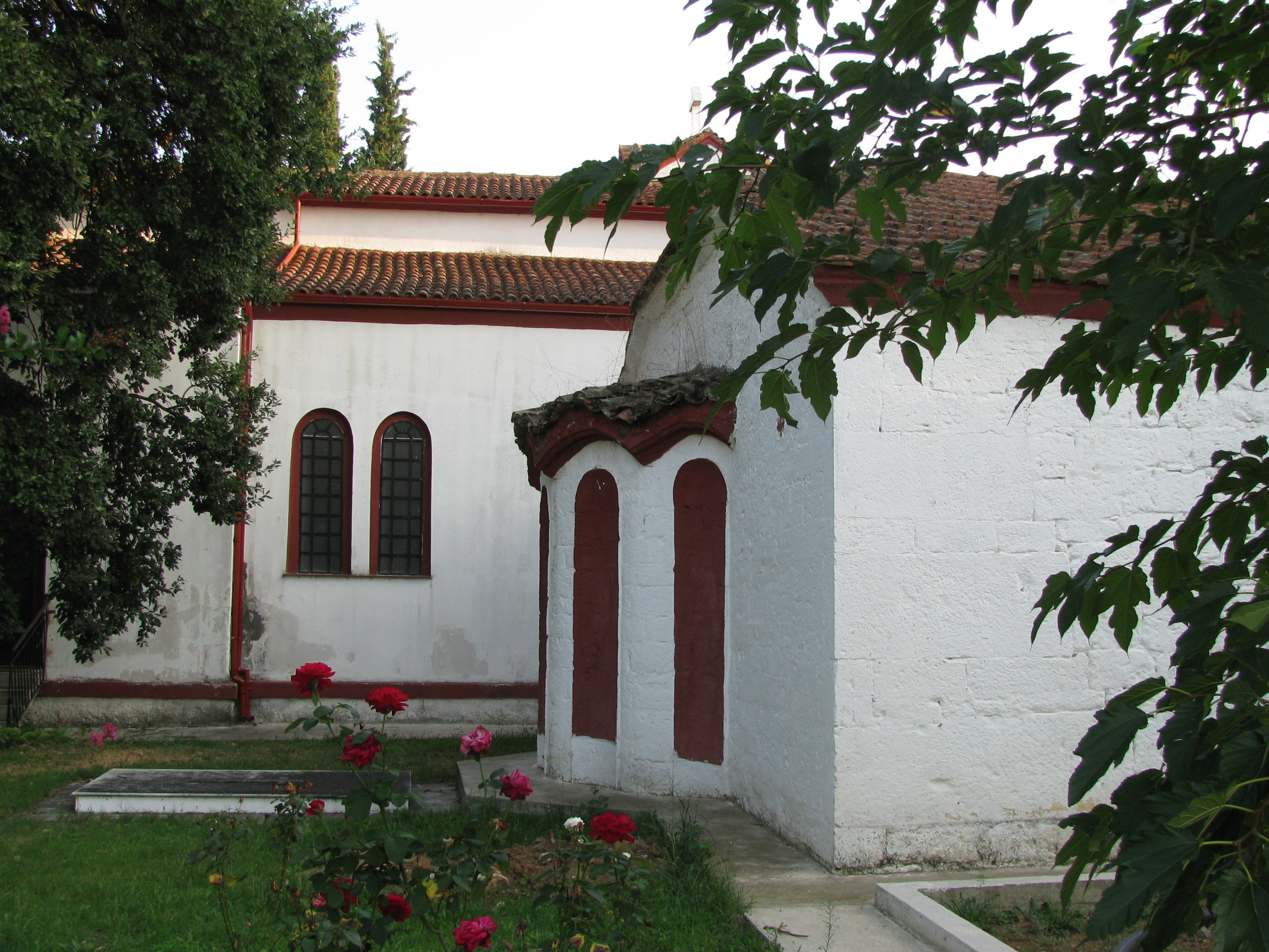 Churches of Ditiko/Konikovo, Aegean Macedonia, Greece